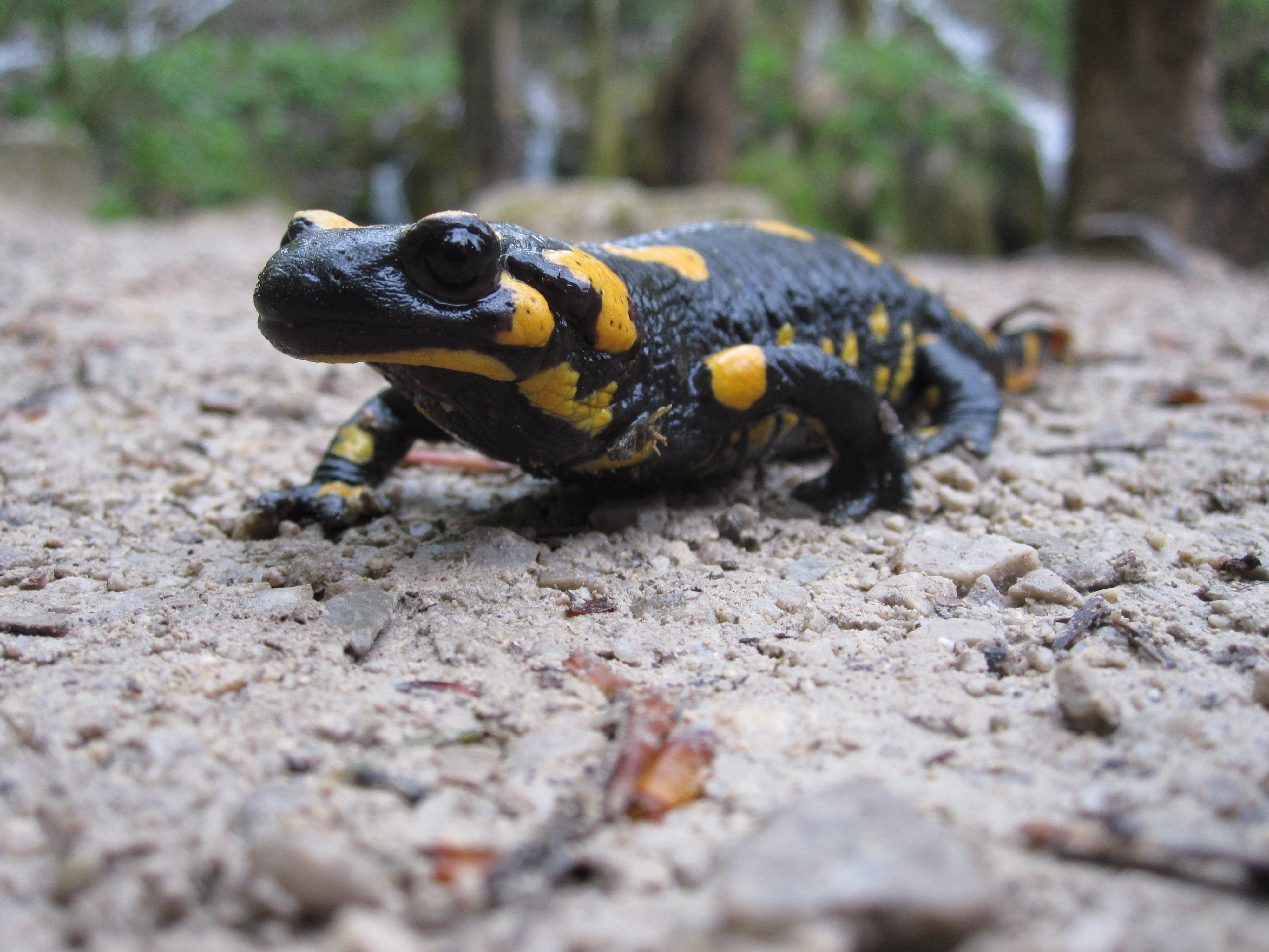 Fire salamander at Plitvice Lakes, Croatia.